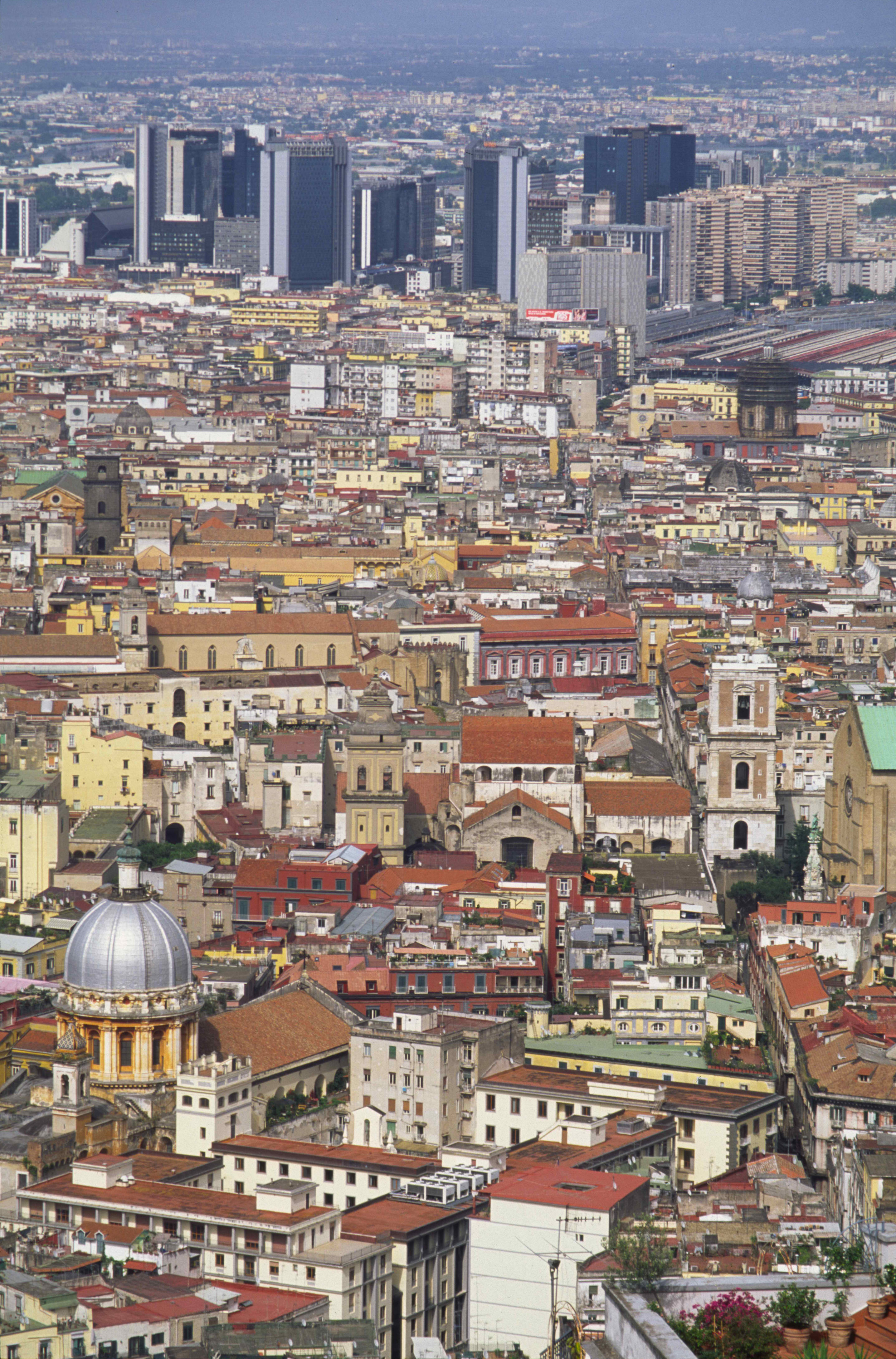 Centro Antico district of Naples, Italy, with Spaccanapoli (the long street on the left) leading to Piazza Garibaldi and Centro Direzionale in distance. Photographed, by Andrew, from Castel Sant'Elmo.